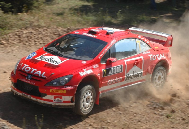 Marcus Grönholm driving a Peugeot 307 WRC at the 2005 Acropolis Rally.